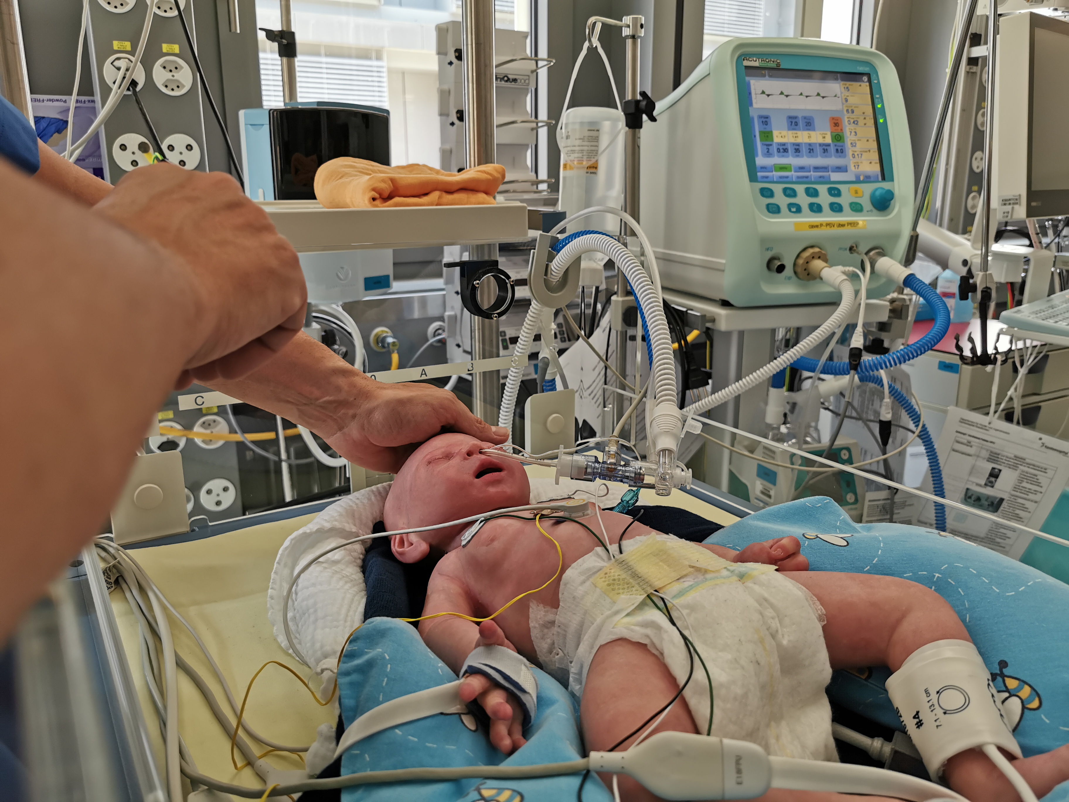 Baby Lung Simulator LuSi in a training session at the Kantonsspital Graubünden, Chur.